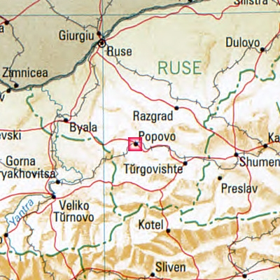 location of Popovo in Bulgaria; part of the map Bulgaria_1994_CIA_map.jpg